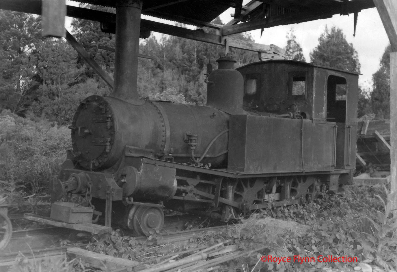 D 144 at Hokitika 20-11-1955 Unknown Photographer, Wally Derbyshire Collection, Royce Flynn Restoration at Kanieri-Hokitika Sawmilling Co. 1928-1951 according to Lloyd's Register.